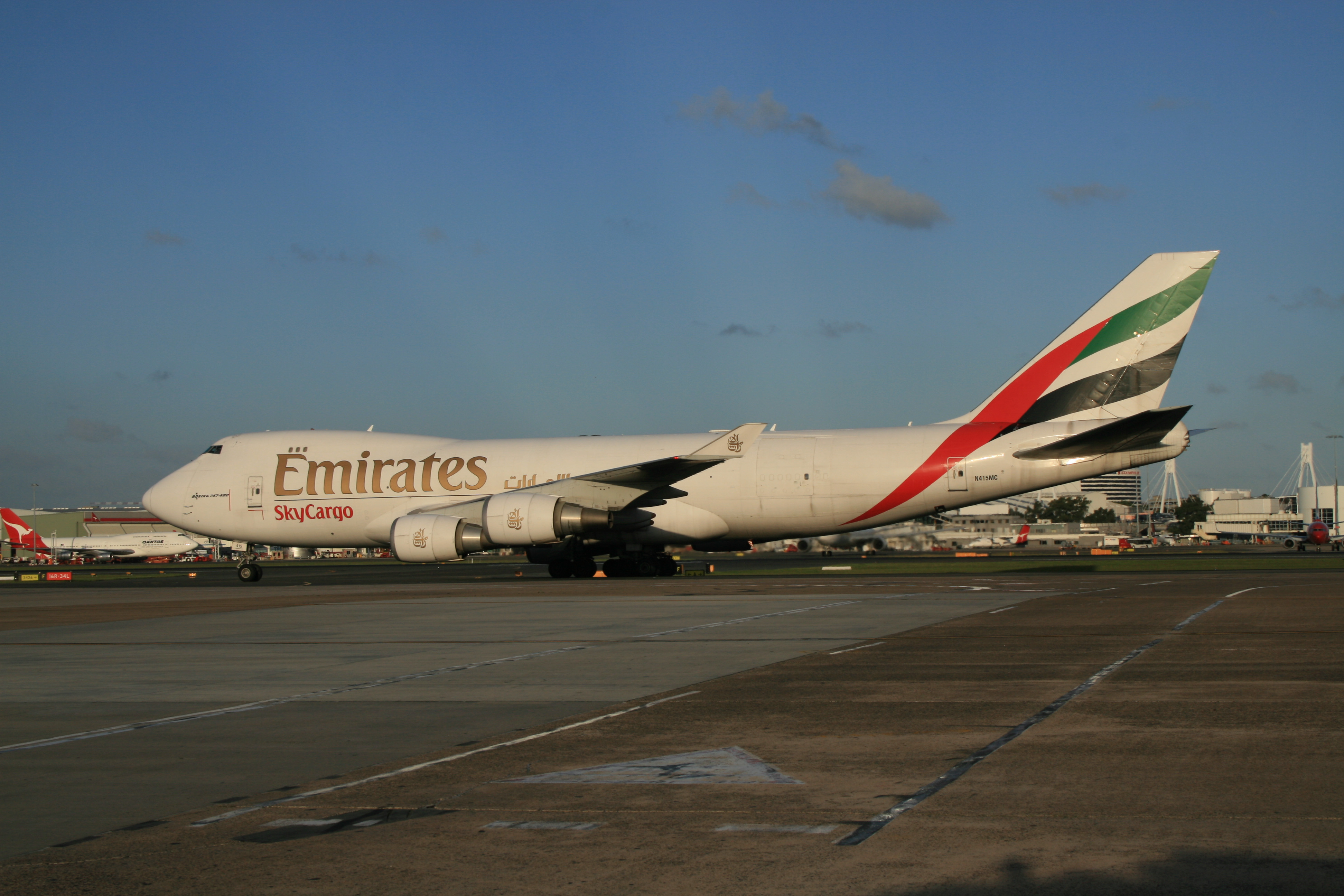 Atlas Air operates this Boeing 747-400F on behalf of Emirates SkyCargo. Digital photo of N415MC taken by YSSYguy at Sydney Airport on 17 December 2007 and uploaded for use in the Atlas Air article